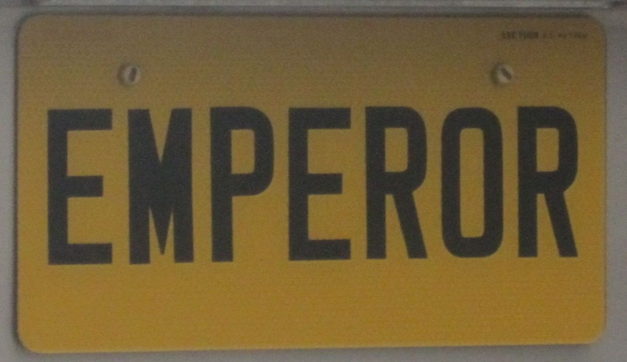 Personalized Vehicle Registration "EMPEROR"